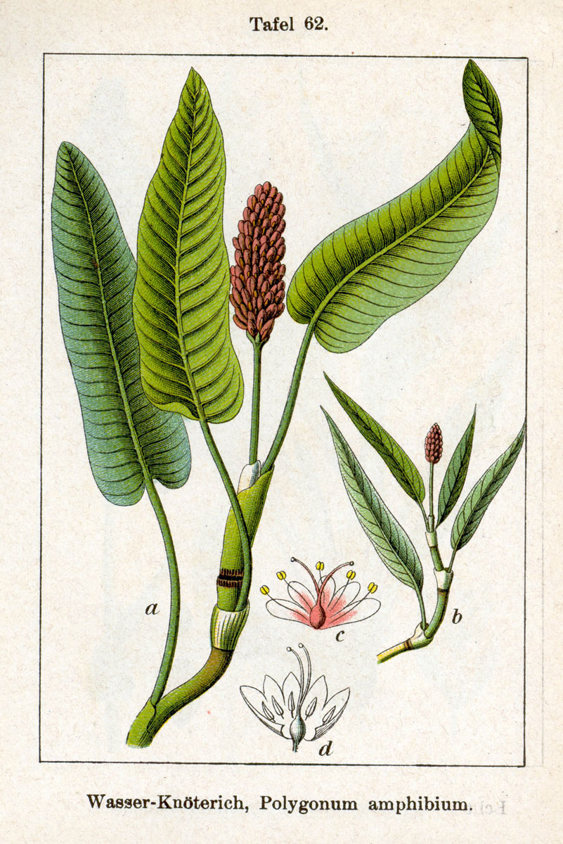 Persicaria amphibia (L.) Delarbre, syn. Polygonum amphibium L. Original Description Wasser-Knöterich, Polygonum amphibium